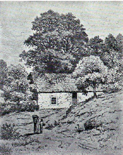 Etching by Maria de Hohenzollern with a rural landscape, published in the catalog of the V Barcelona International Art Exhibition of 1907.